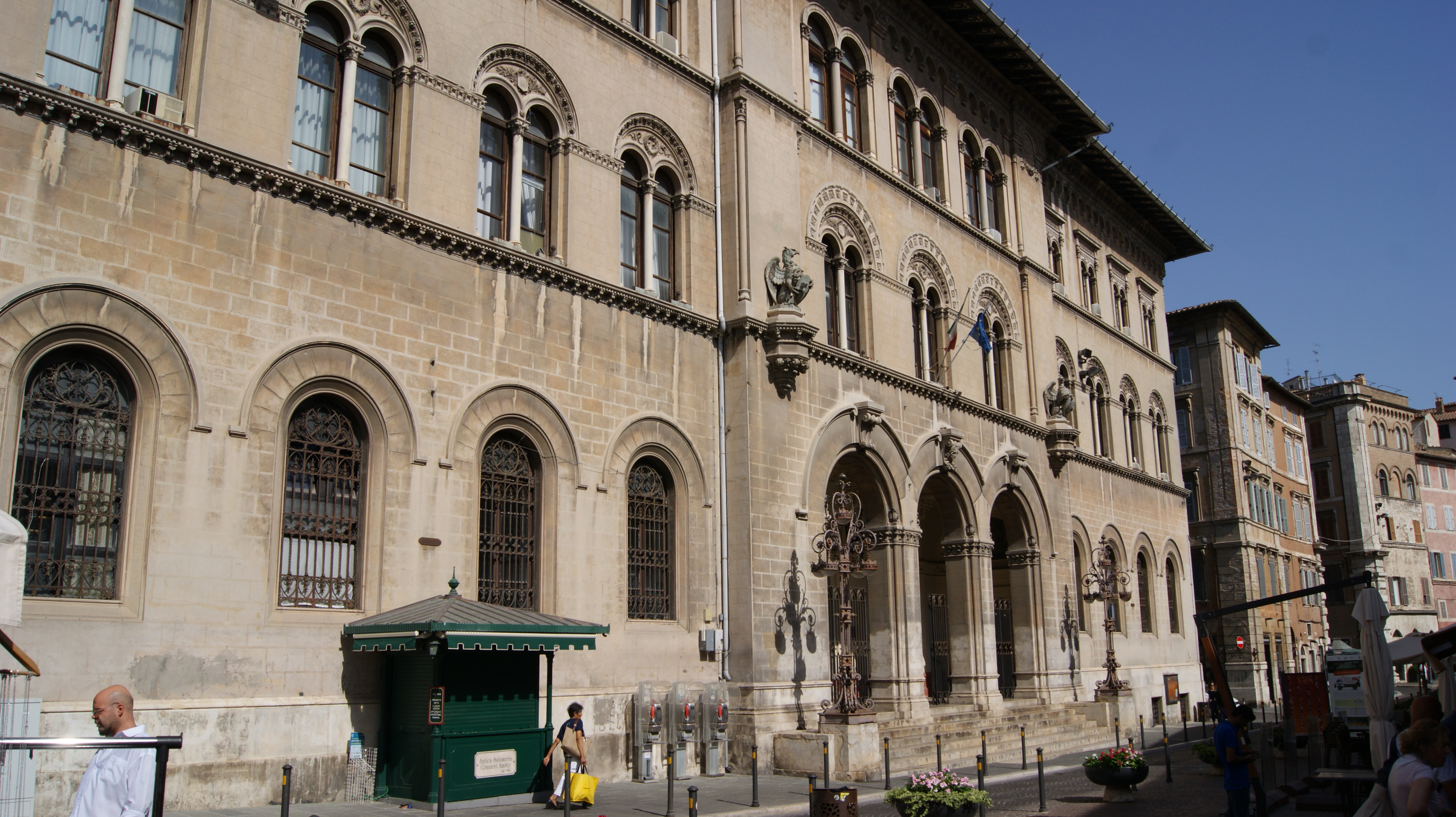 Perugia, Italy. Tribunal in Perugia.